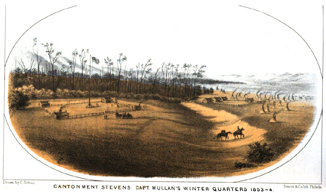 Cantonment Stevens in the Bitterroot Valley of the Washington Territory in the United States in 1853-1854. Gustavus Sohon, artist. Cantonment Stevens was founded by Lt. John Mullan, a United States Army explorer with the Stevens Railroad Survey. It was named for Isaac Stevens, leader of the survey party and later Governor of the Territory of Washington.